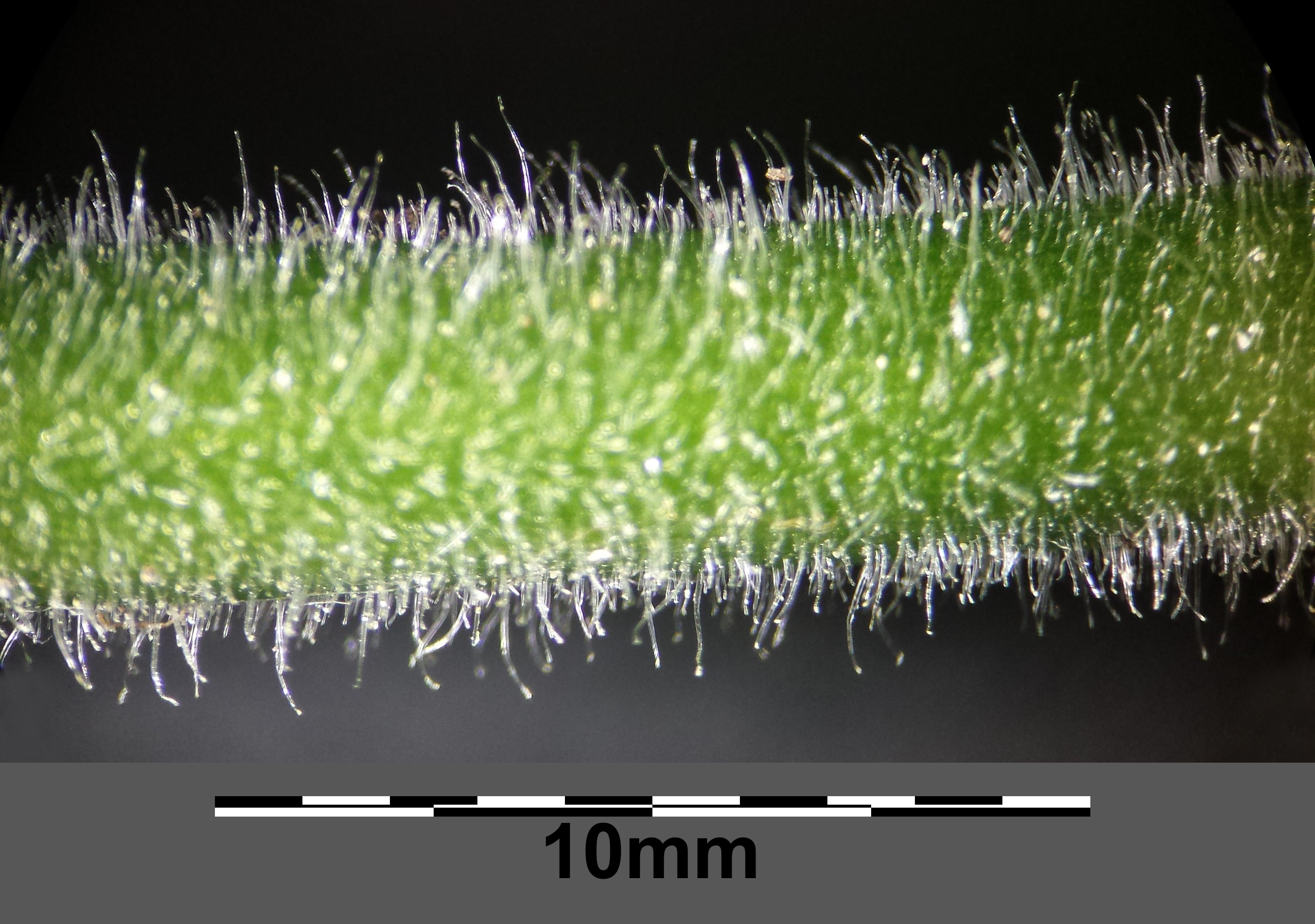 Stem with glandular hairs Taxonym: Hesperis sylvestris ss Fischer et al. EfÖLS 2008 ISBN 978-3-85474-187-9 Location: Steinberg near Ernstbrunn, district Korneuburg, Lower Austria - ca. 440 m a.s.l. Habitat: border of a wood